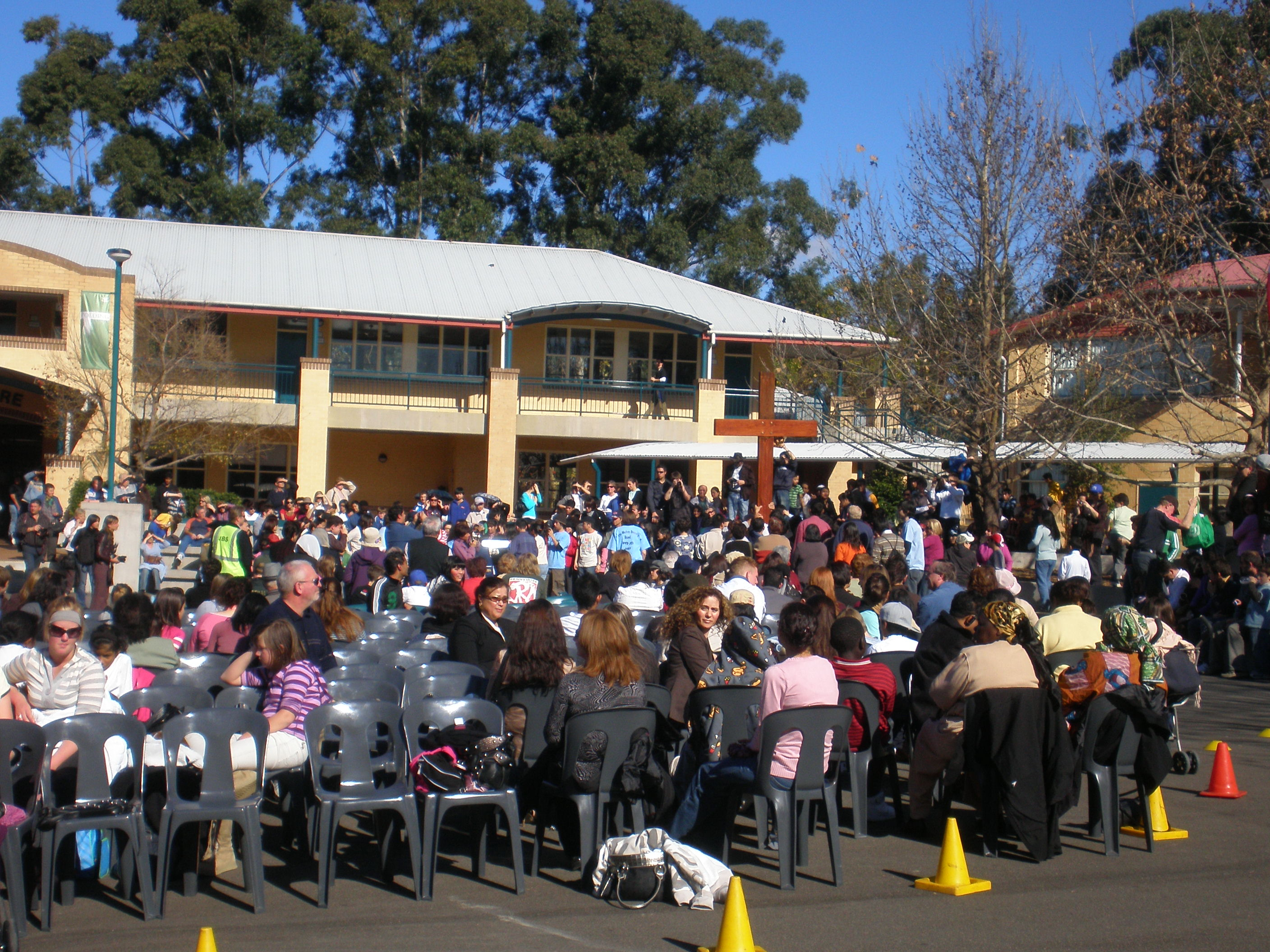 Patrician Brothers' College hosting the WYD cross and icon. i took this on the 2/7/2007